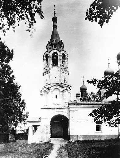 The bell tower of church of Intercession of the Virgin in Bratzevo, Moscow. 17 century.